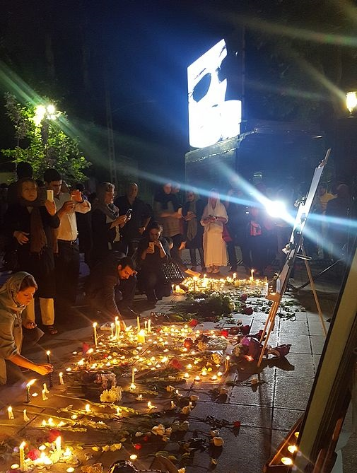 Abbas Kiarostami memorial at Tehran's Cinema Museum